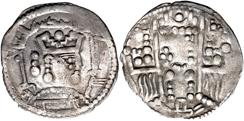 ISLAMIC, 'Abbasid Caliphate (Arab-Bukharan coinage). Al-Amin. As governor of Khorasan, AH 180-186 / AD 796-801. AR Drachm (25mm, 2.67 g, 7h). Crowned bust right; bism Allah Muhammad rasul Allah muhammadiyya mimma amara bihi al-amin ‘ala [yaday] sulayman lillah around / Crude fire altar flanked by attendants. Treadwell Type 10; Walker 344-50; Album 96. VF.